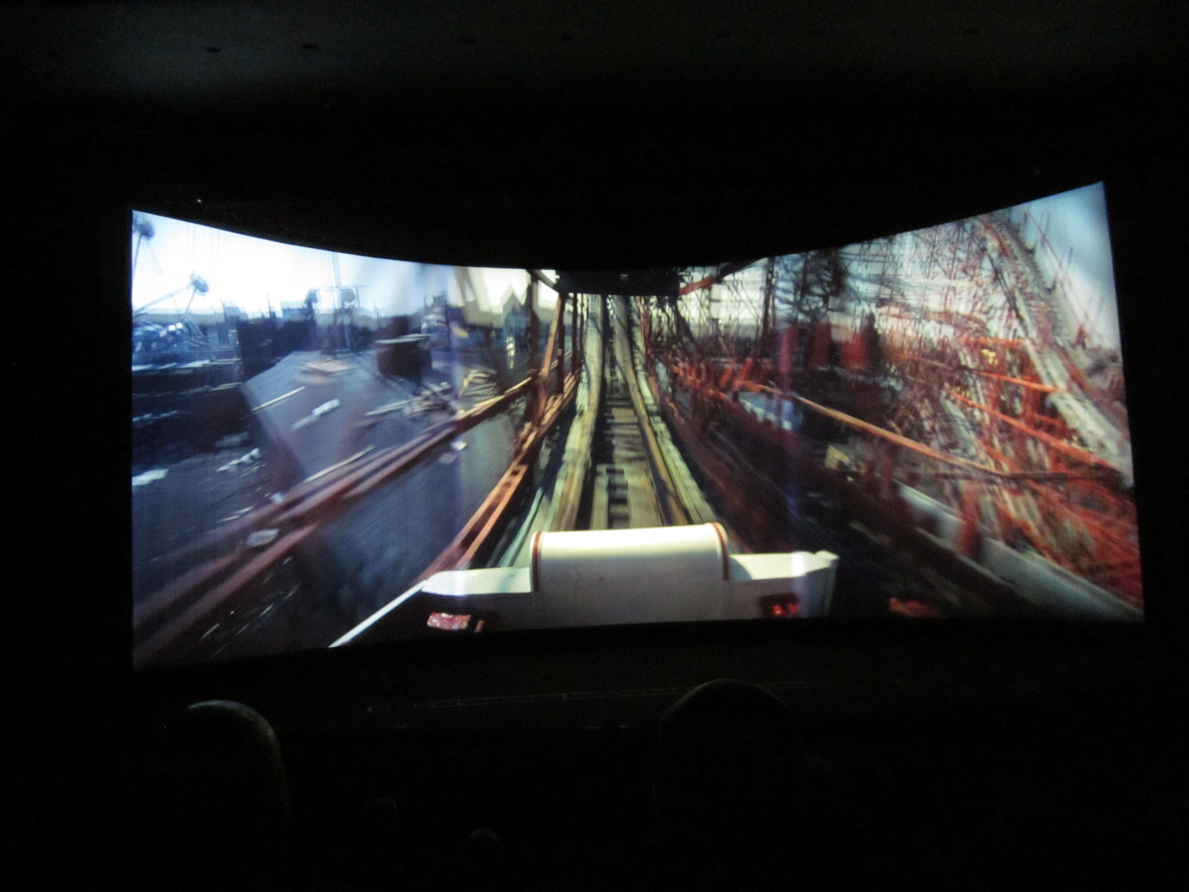 Scene from the film "This is Cinerama" (public domain) from 3 projectors.